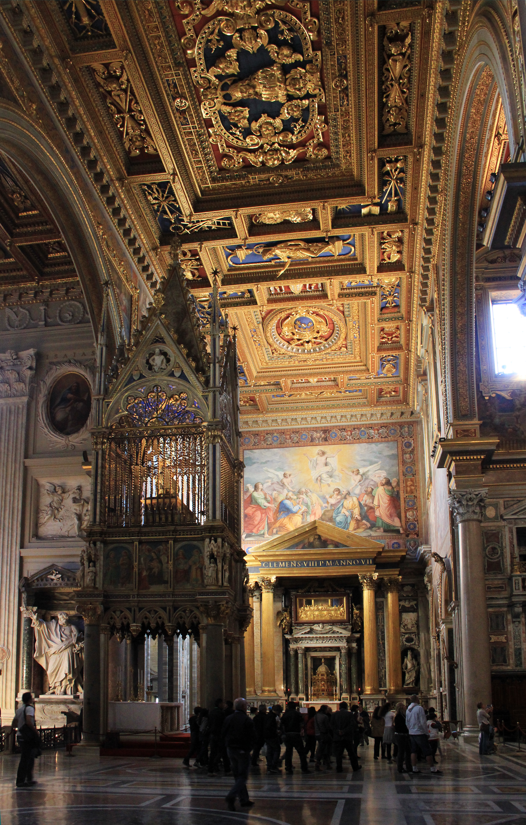 Interior and Ciborium of Basilica of St. John Lateran, Rome, Italy